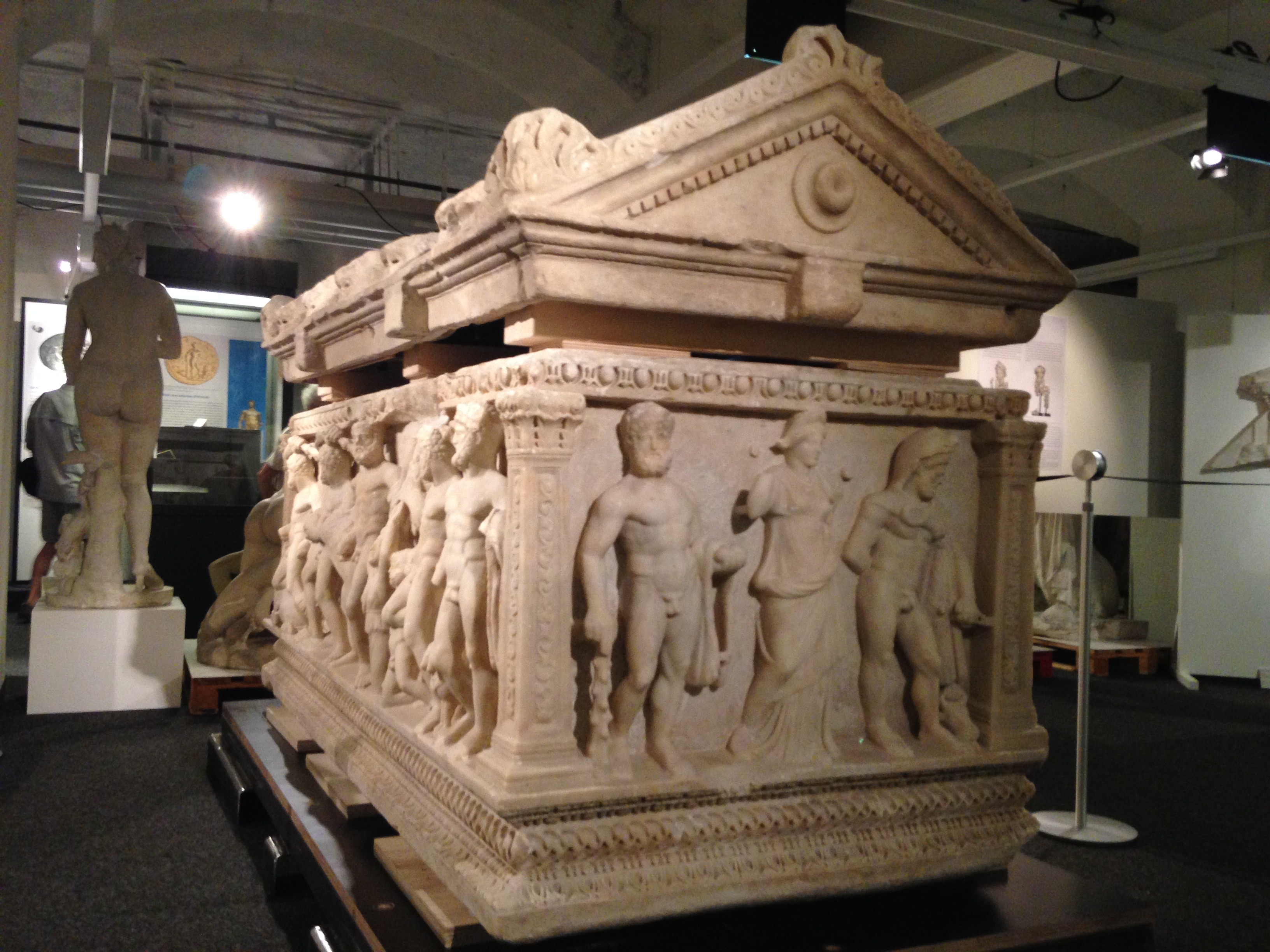 Roman sarcophagus of Perge (Turkey) found by Swiss customs and exposed before its return to the country of origin